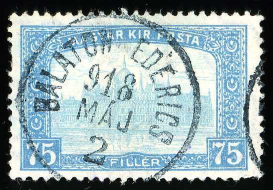 Kingdom of Hungary, issue 1917 2 colours stamp, 75 fillér turquoise-blue (SG260), cancelled BALATON-EDERICS on 2 Maj 1918. Michel N°201.